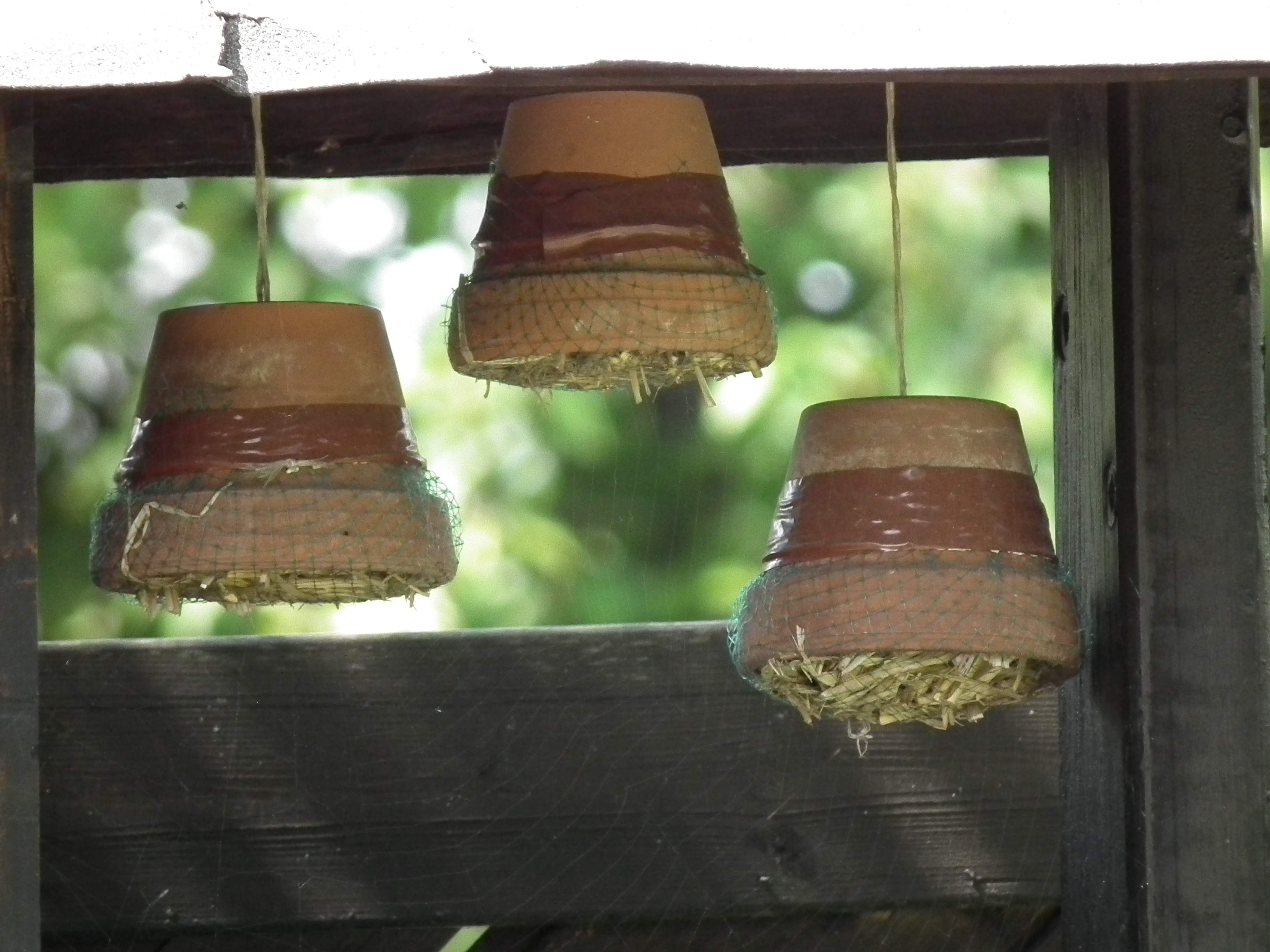 Shelter for earwigs (Dermaptera), before that did a spider built her web